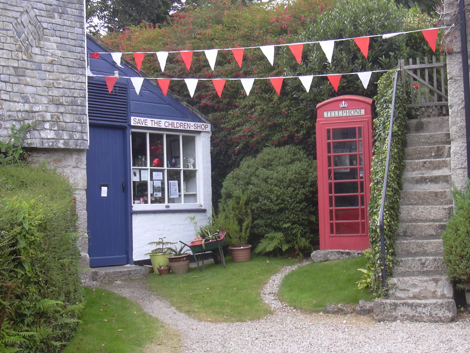 Porth Navas: Save the Children Shop.